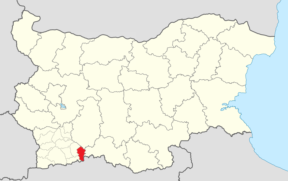 Location map of Satovcha Municipality within Bulgaria and Blagoevgrad province